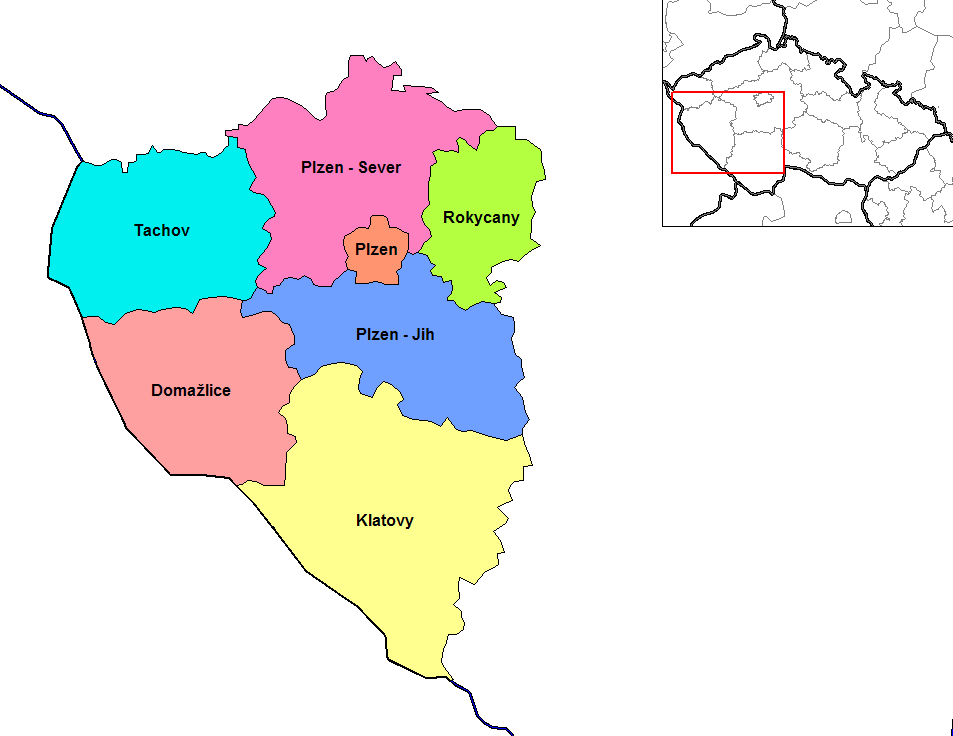 Map of the districts of Plzen region of the Czech Republic. Created by Rarelibra 15:14, 2 January 2007 (UTC) for public domain use, using MapInfo Professional v8.5 and various mapping resources.